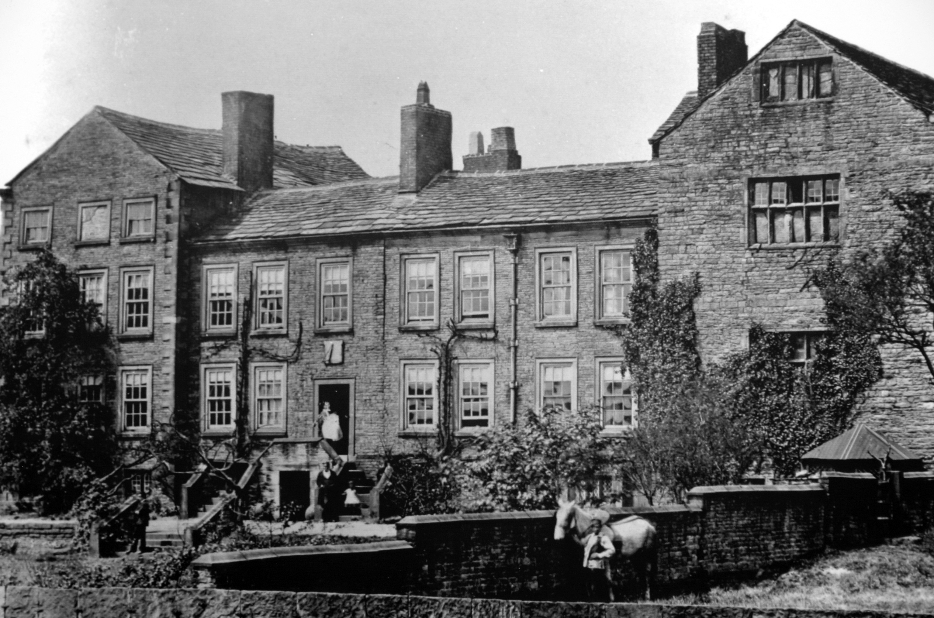 Royton Hall in Royton,Greater Manchester (formerlly Lancashire), England.